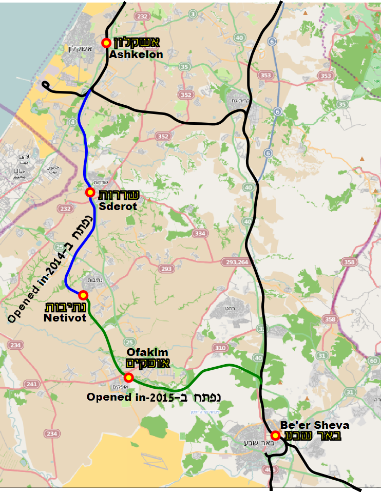 Ashkelon–Beersheba railwayAshkelon-Sderot Section open as of 24 December 2013